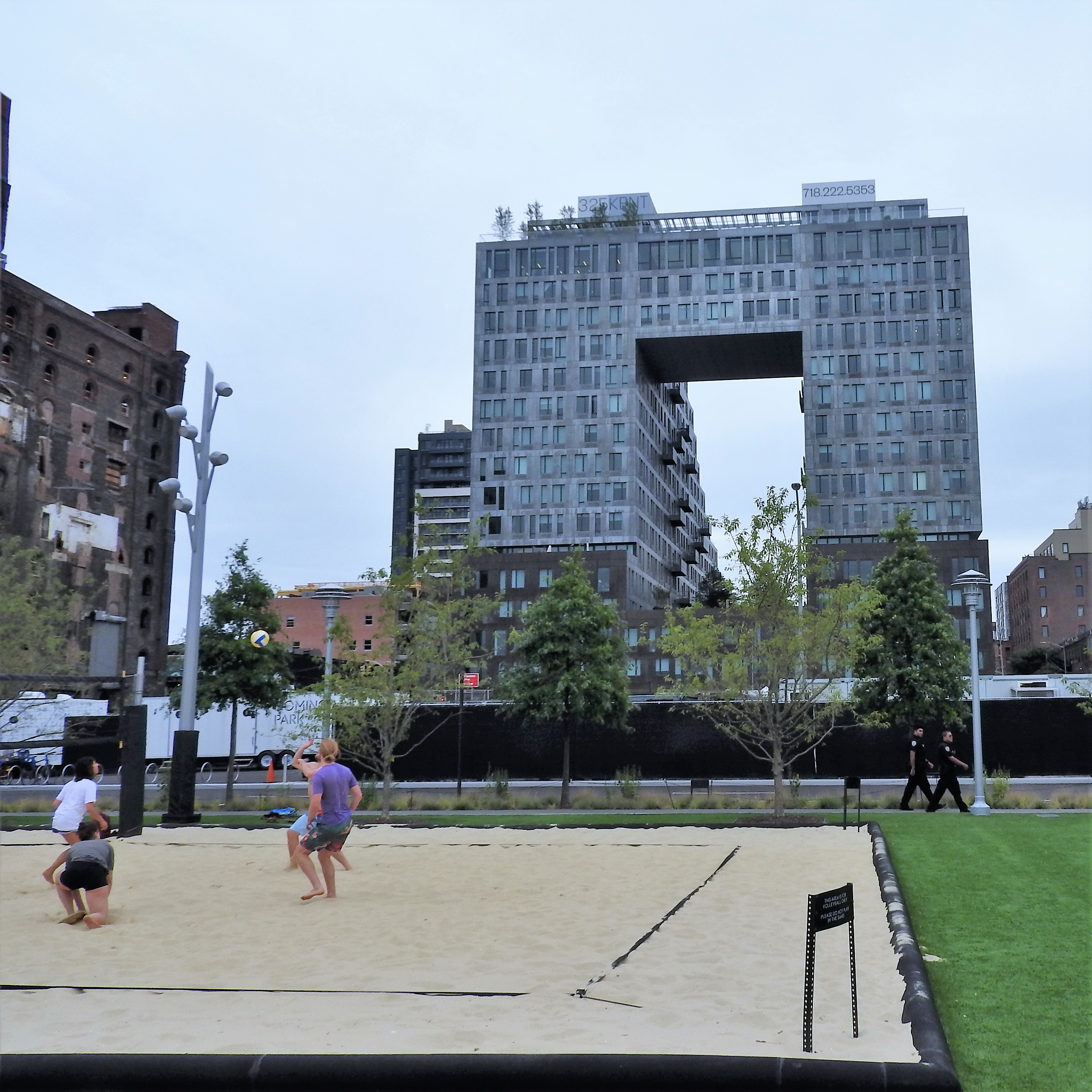 Looking east at apartment house and end of volleyball court